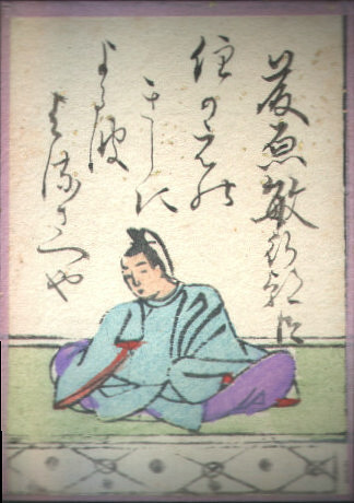 A portrait of Fujiwara Toshiyuki no Ason; illustration from an uta-garuta playing card for Hyakunin Isshu, created in the Edo period.